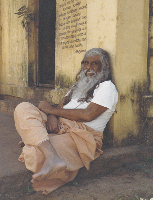 Dr. Pillai in India February 2000